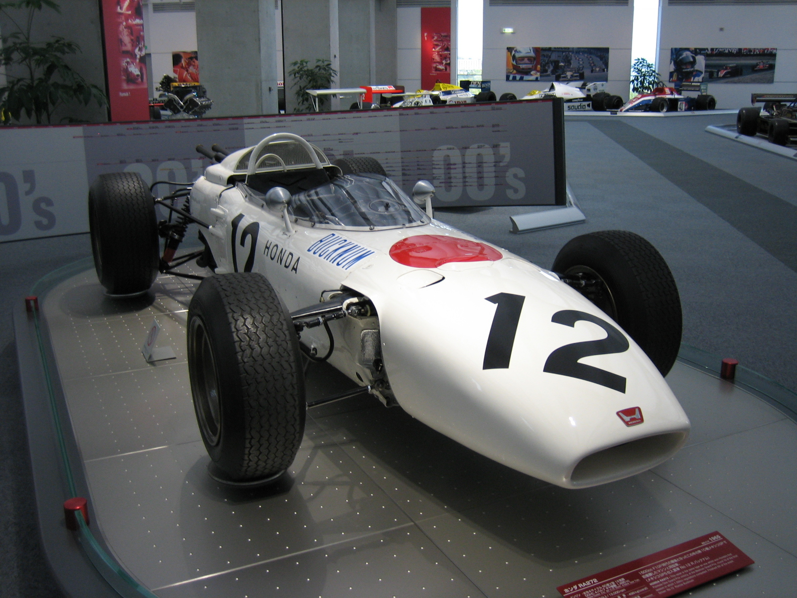 I photo Honda RA272 in the Honda collection hole.